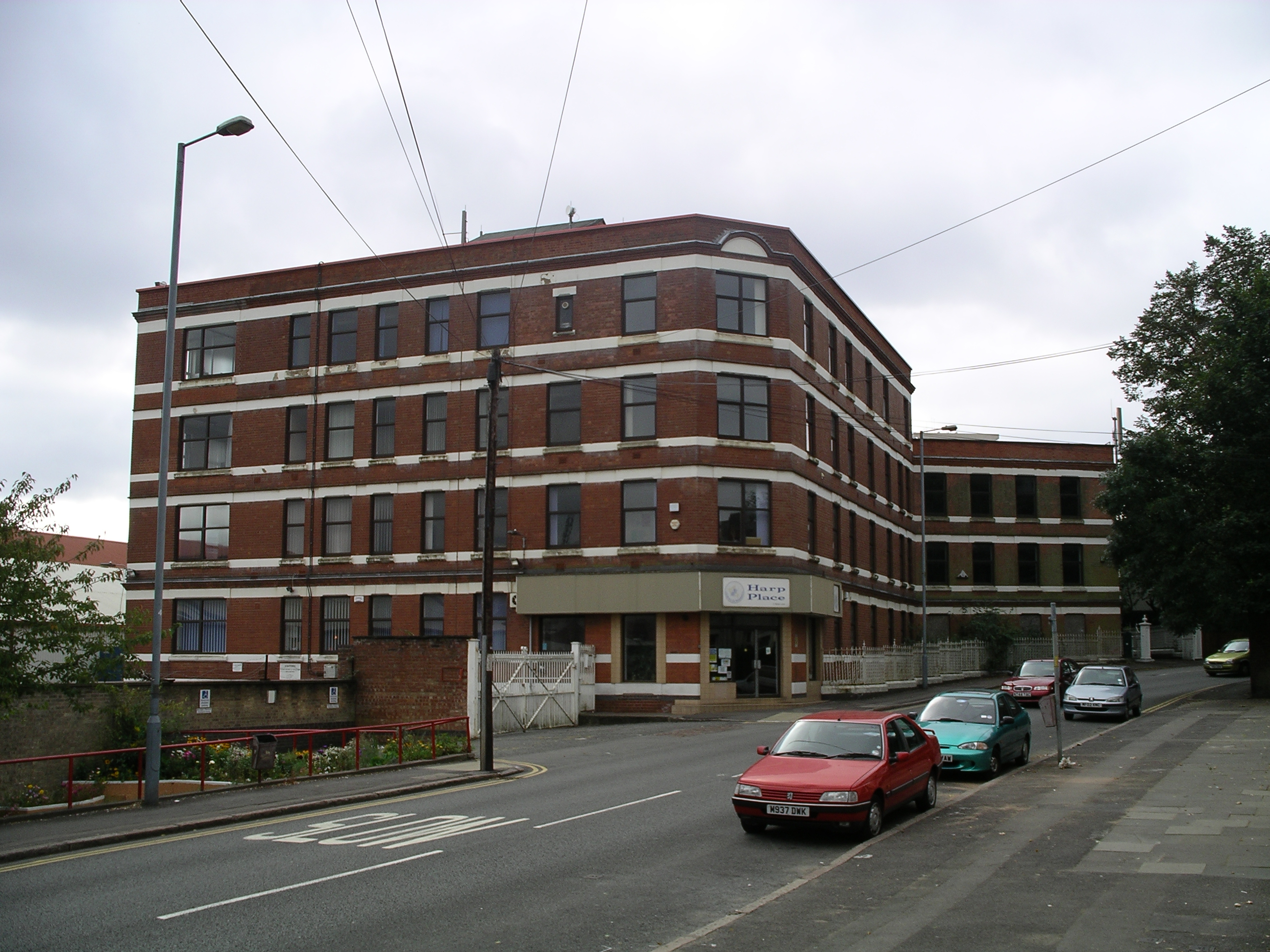 Sandy Lane, Radford, Coventry, England. Shows a red brick building with stone banding, built in 1906-7, (see below) which was formerly the office block of Motor Mills. It is one of the few surviving buildings of Motor Mills, the former car factory and Daimler factory in Coventry. This building was used by Coventry Climax forklift trucks as its headquarters in the 1980s. Please note that this building was built "in the 1860s" for Coventry Cotton Spinning and Weaving Company. Gutted by fire in 1891 it was rebuilt but still unused (it contained textile machinery) when acquired in March 1896 and re-named Motor Mills by what became The Daimler Company Limited. source: Lord Montagu and David Burgess-Wise Daimler Century pages 31-32 ; Stephens 1995 ISBN 1-85260-494-8